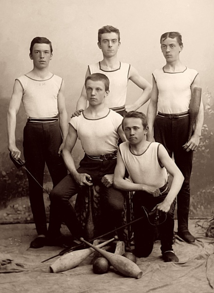 Group of members of Sokol club in sport costumes, approx. 1900 author: Šechtl a Voseček Uploaded with approval of inheritors of the copyright